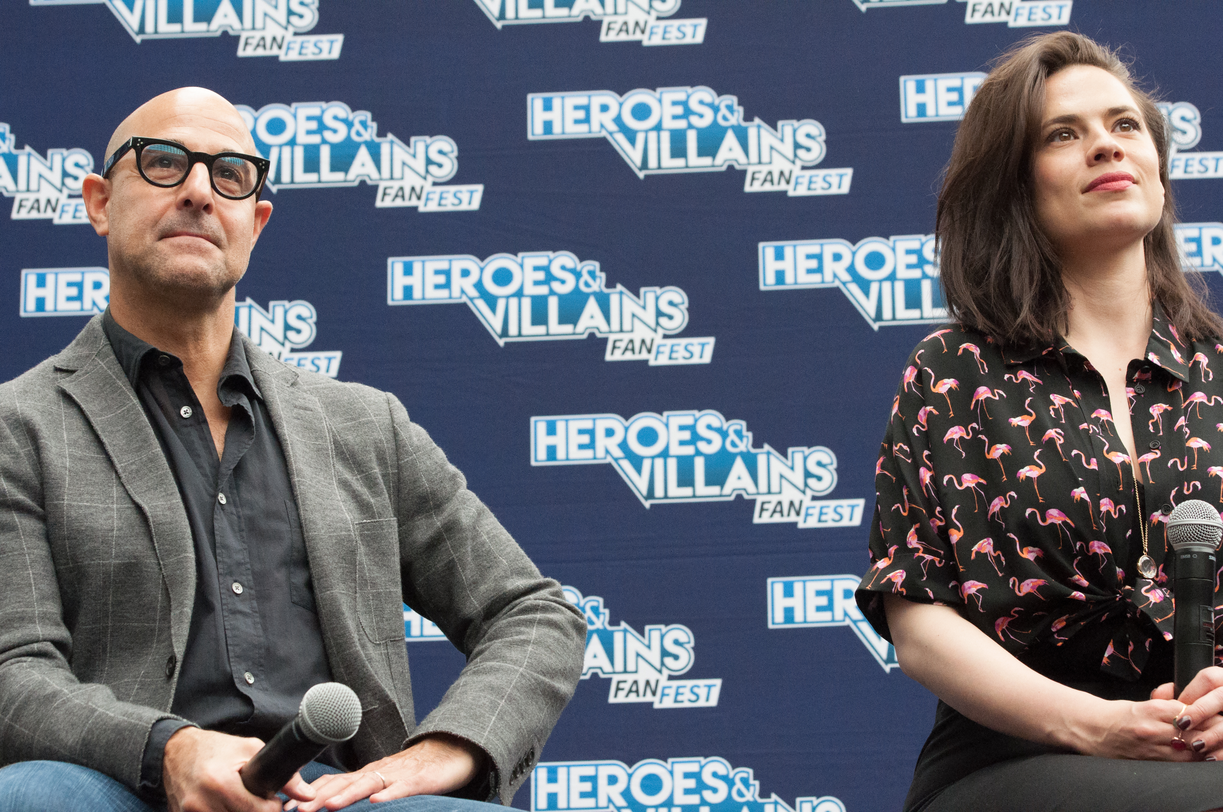 HVFFLondon2017Cap-ALS-16